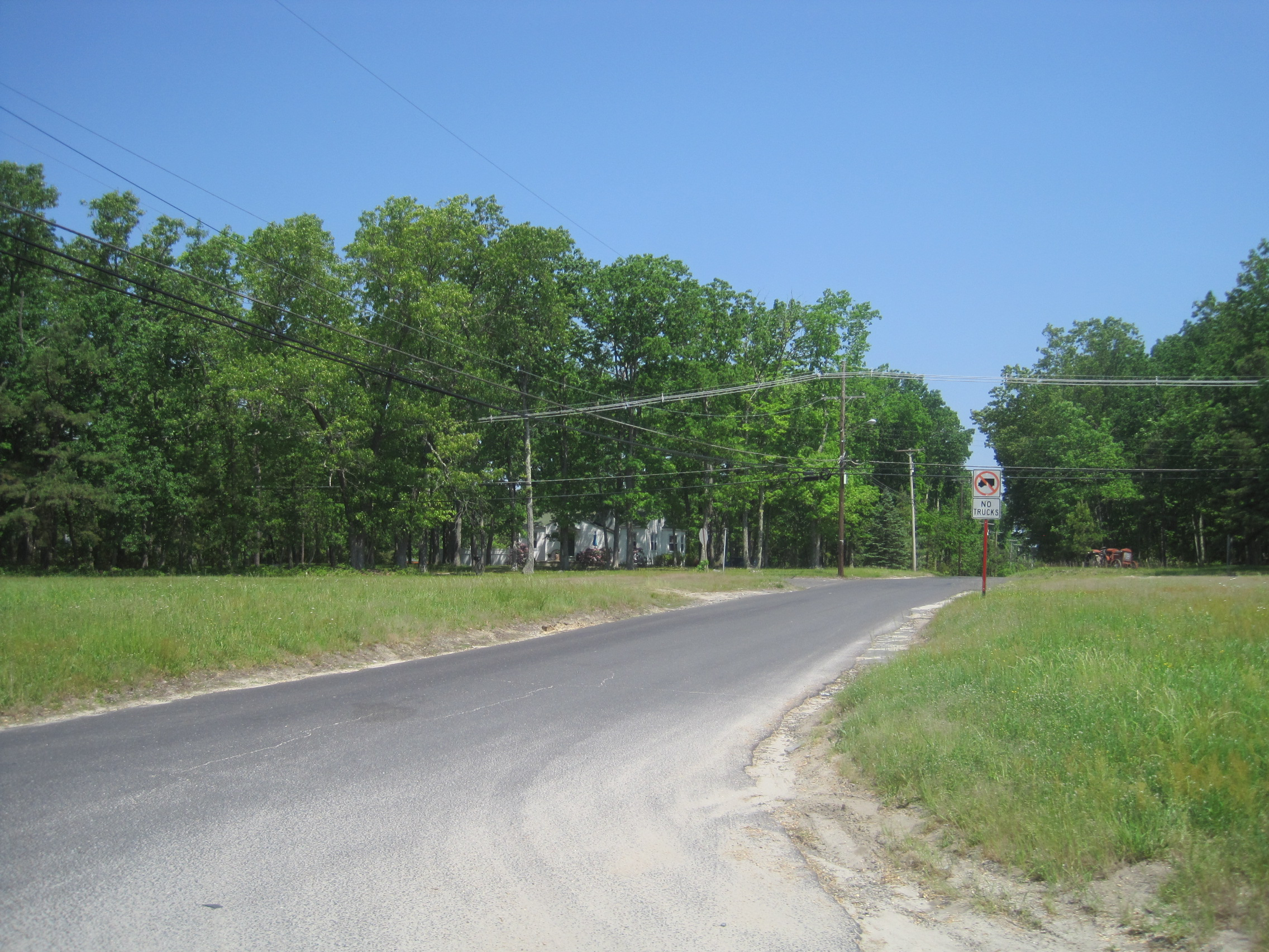 Photo showing Burrs Mill, New Jersey, an unincorporated community within Southampton Township. Photo was taken along New Jersey Route 70 looking north at Burrs Mill Road.